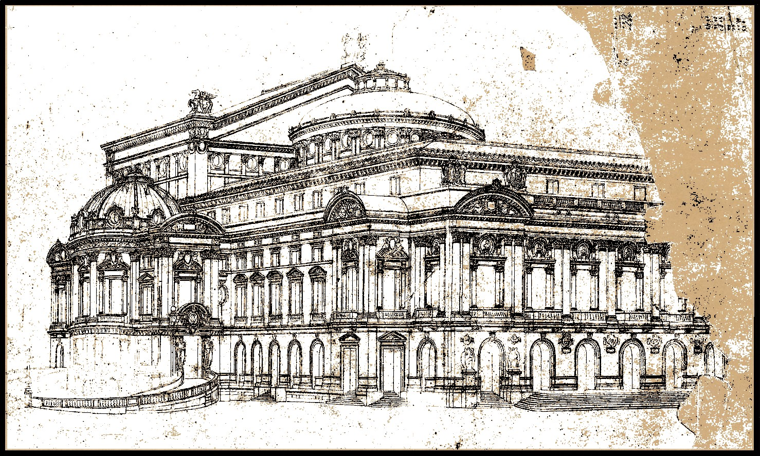 Genuine front side Opéra Garnier - Old drawing/colorised